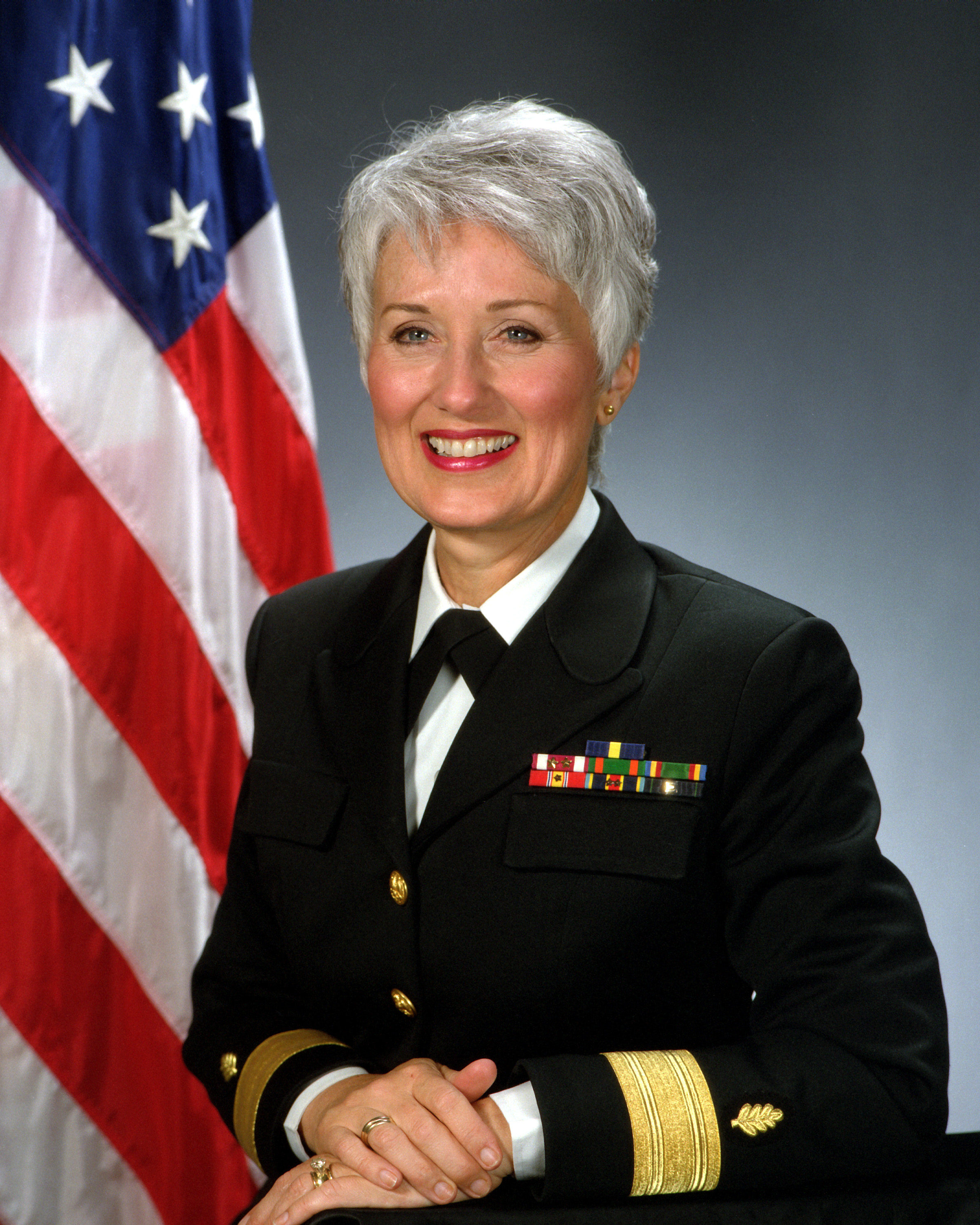 An older white woman with short grey hair, smiling, in a U.S. Navy uniform, with a U.S. flag in the background.